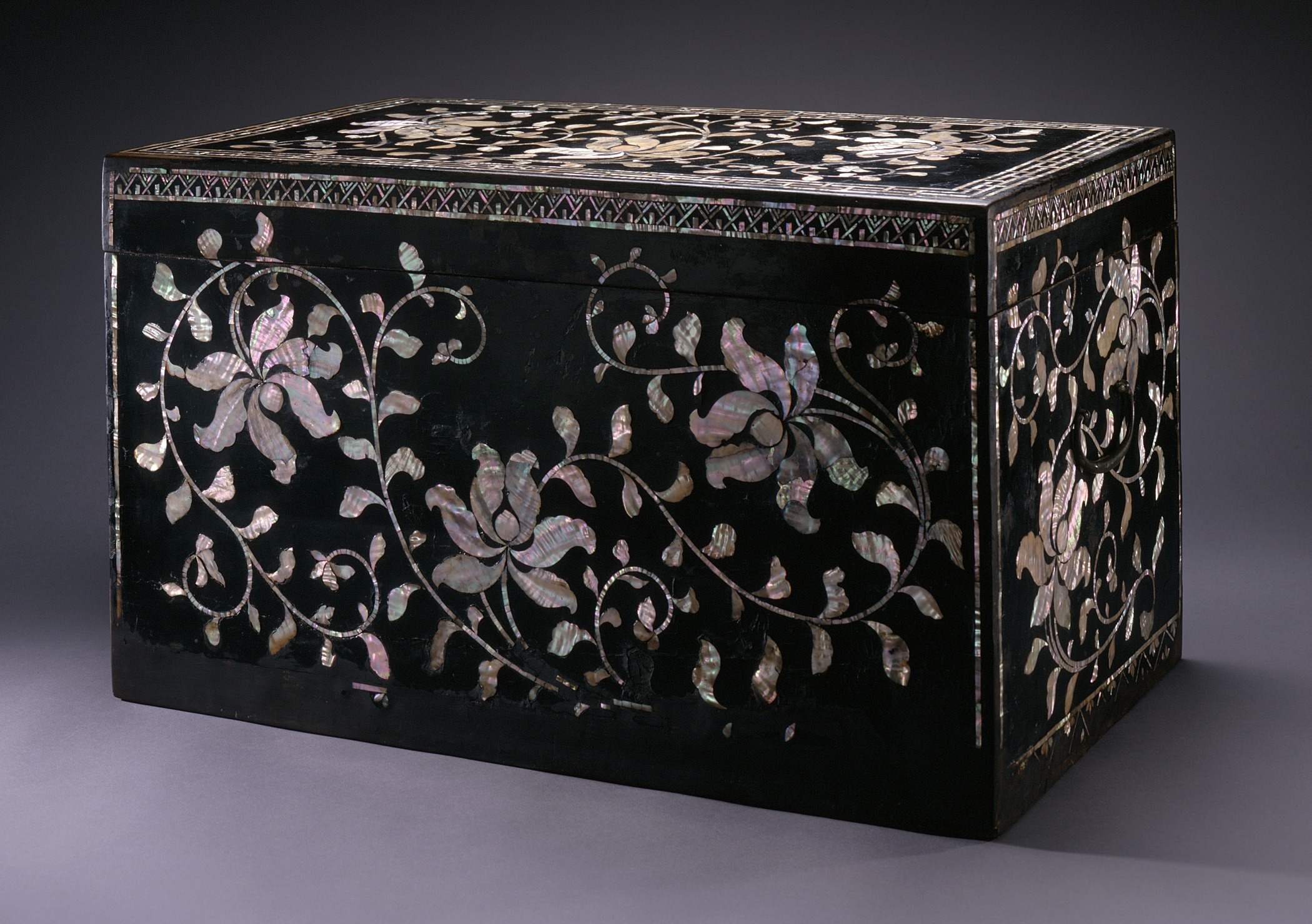 Korea, Joseon dynasty (1392-1910), 18th century Furnishings; Accessories Black lacquer on wood core with gold painted decoration, mother-of-pearl inlay, and metal fittings 16 3/4 x 28 3/4 x 16 1/2 in. (42.55 x 73 x 41.91 cm) Purchased with Museum Funds (M.2000.15.151a-b) Korean Art